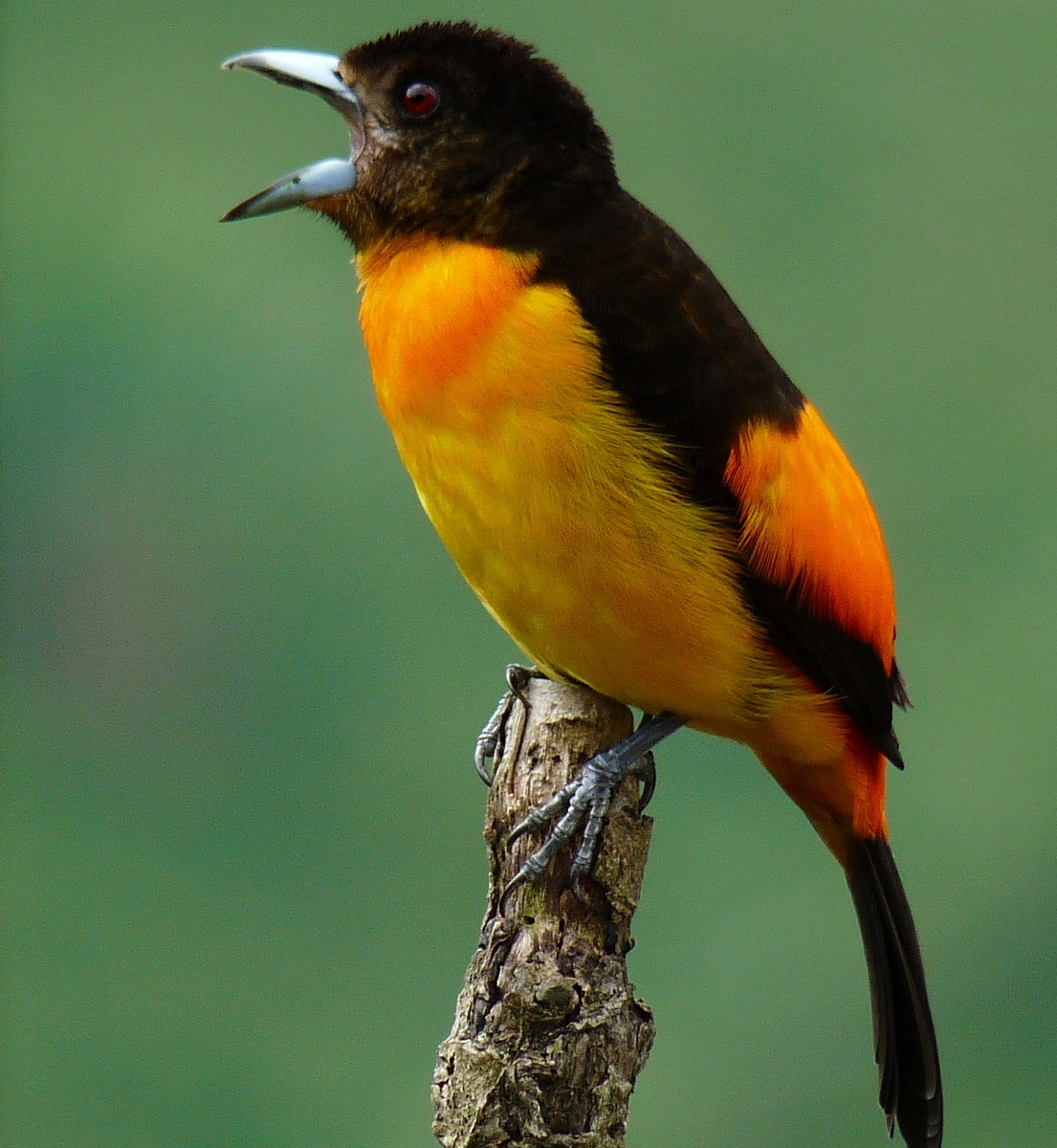 A female Flame-rumped Tanager in Manizales, Caldas, Colombia.